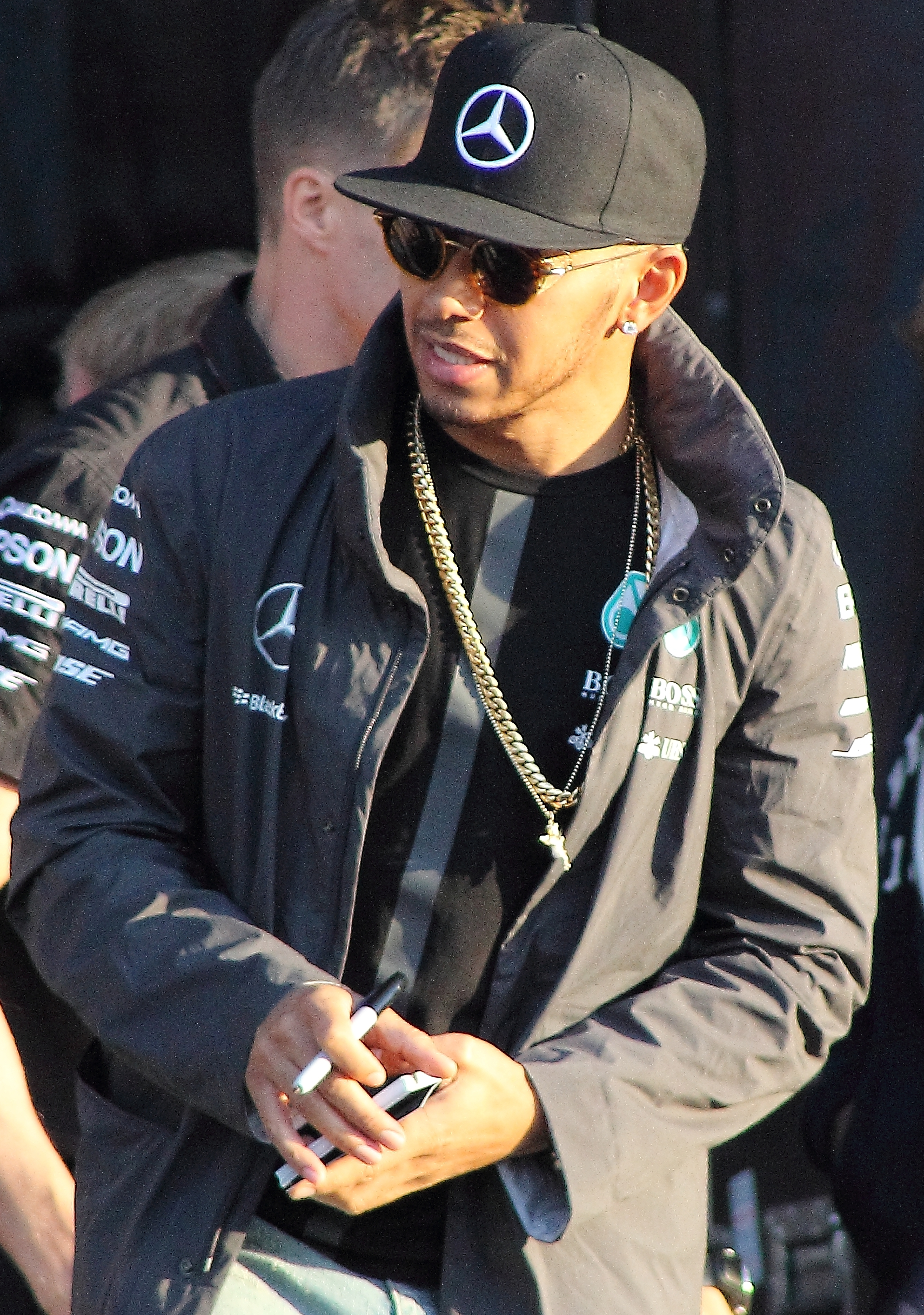 Lewis Hamilton at the 2015 F1 Russian Grand Prix